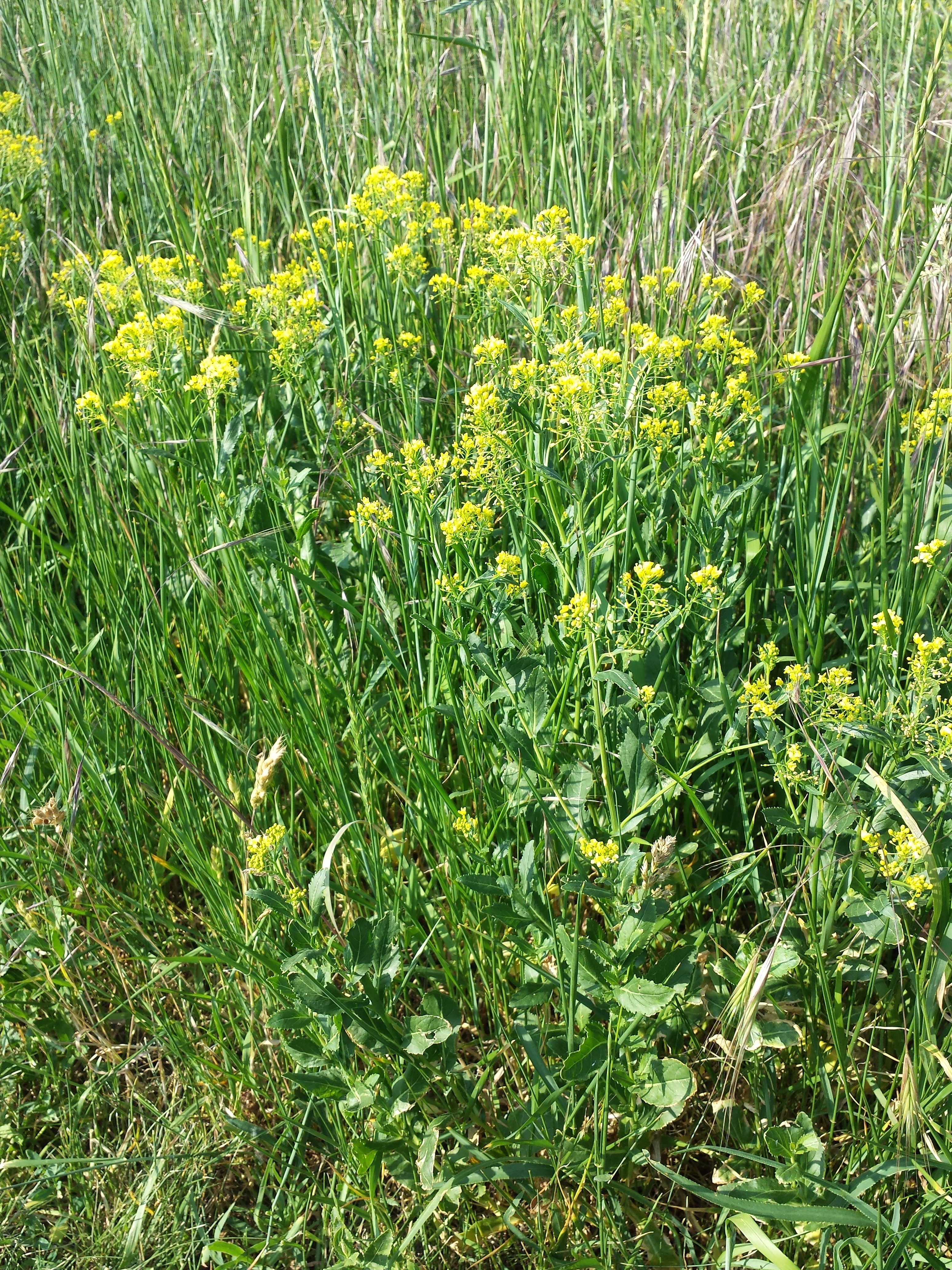 Habitus Taxonym: Rorippa austriaca ss Fischer et al. EfÖLS 2008 ISBN 978-3-85474-187-9 Location: Donaupark, Vienna-Donaustadt - ca. 160 m a.s.l. Habitat: ruderal, dry meadows